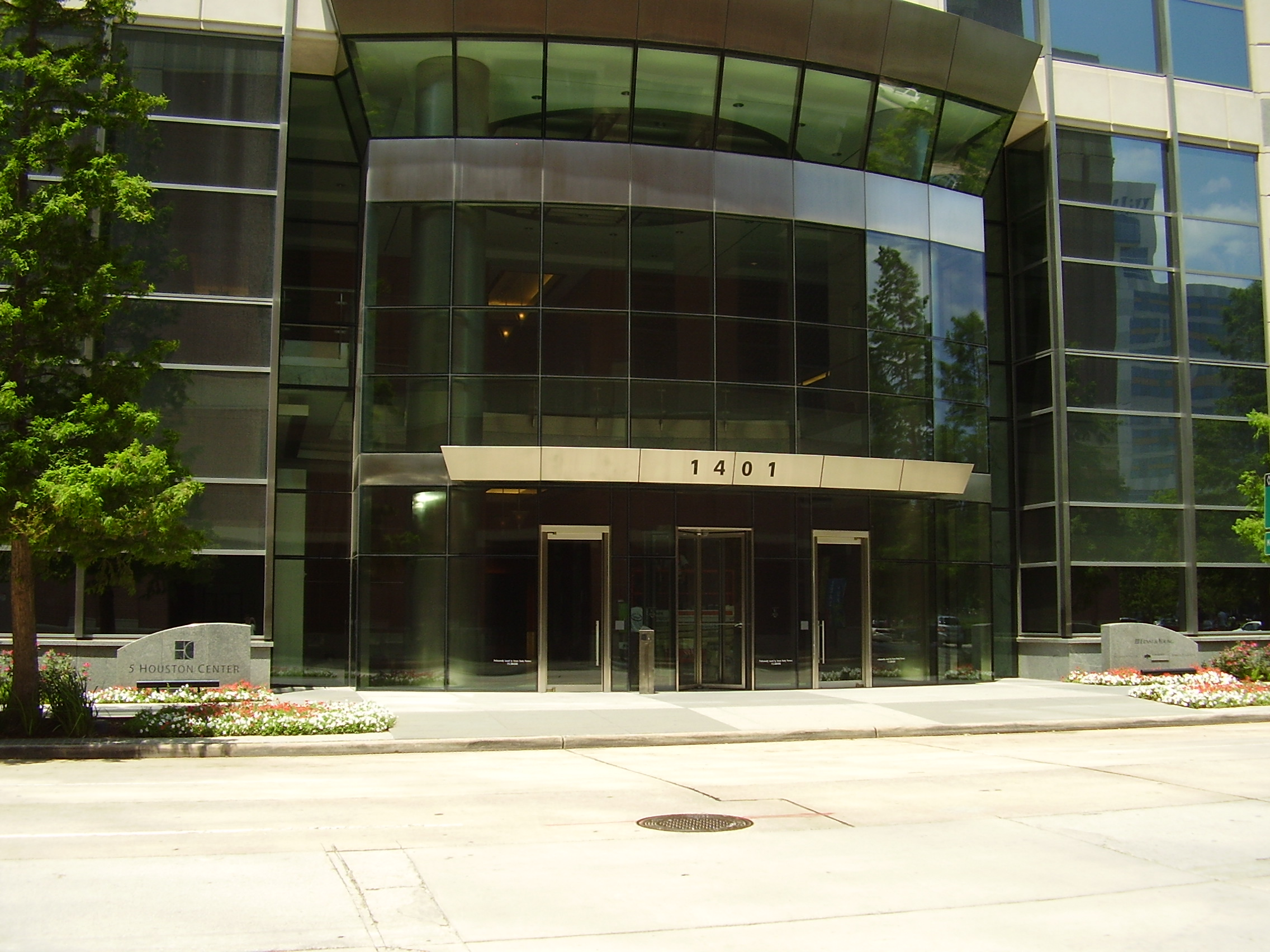 5 Houston Center, which formerly housed the headquarters of Halliburton